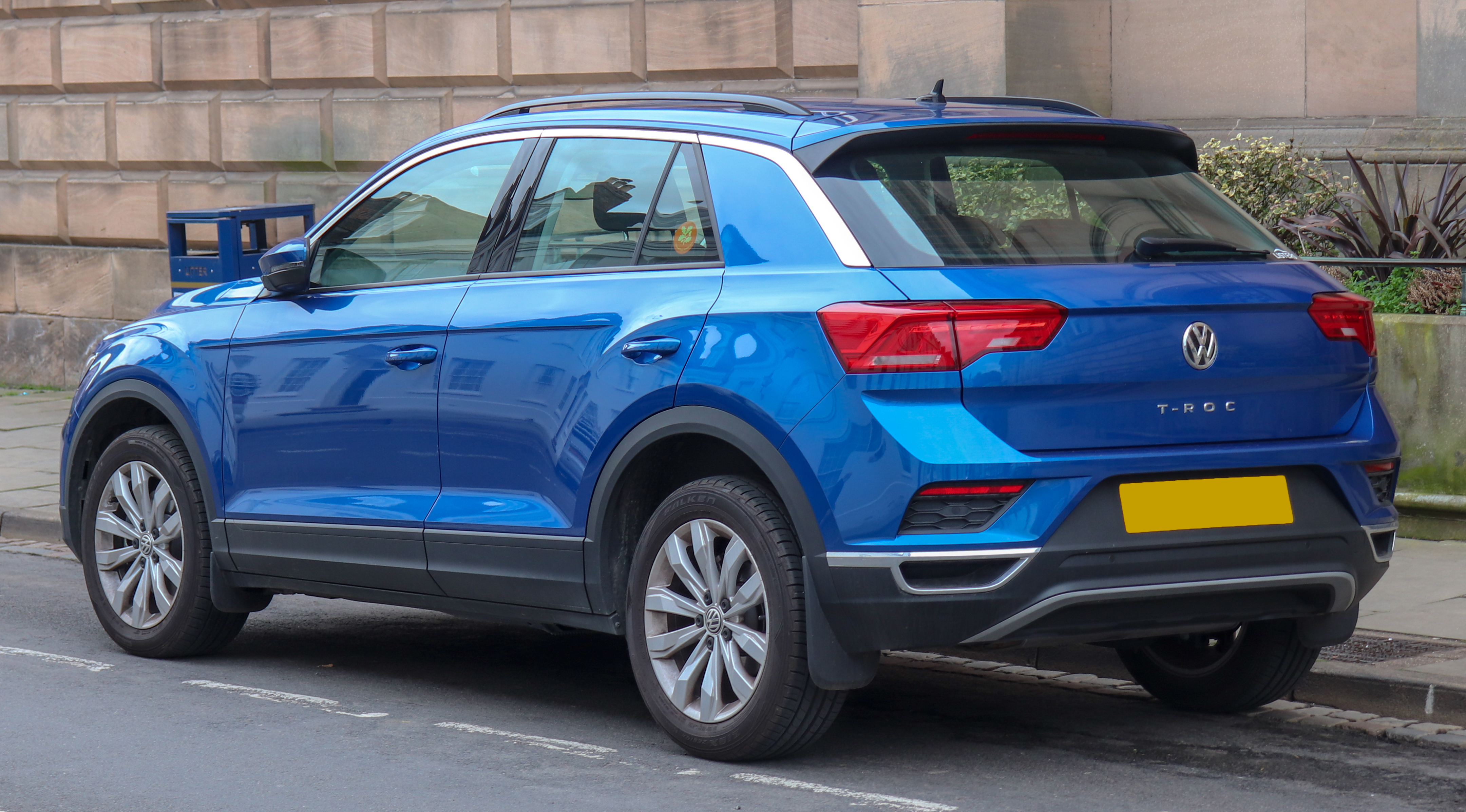 2018 Volkswagen T-Roc SE TSi EVO 1.5 Rear Taken in Warwick